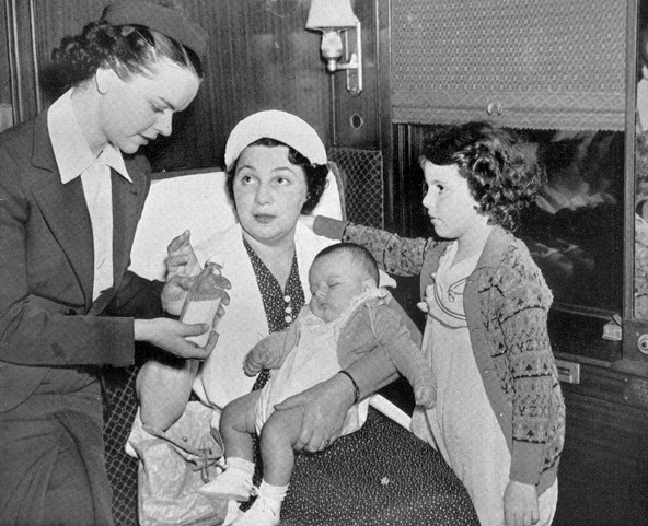 Photo of a Baltimore and Ohio Railroad stewardess/nurse on the B&O's Shenandoah train helping passengers, from the Baltimore and Ohio Magazine published for employees in August 1938.